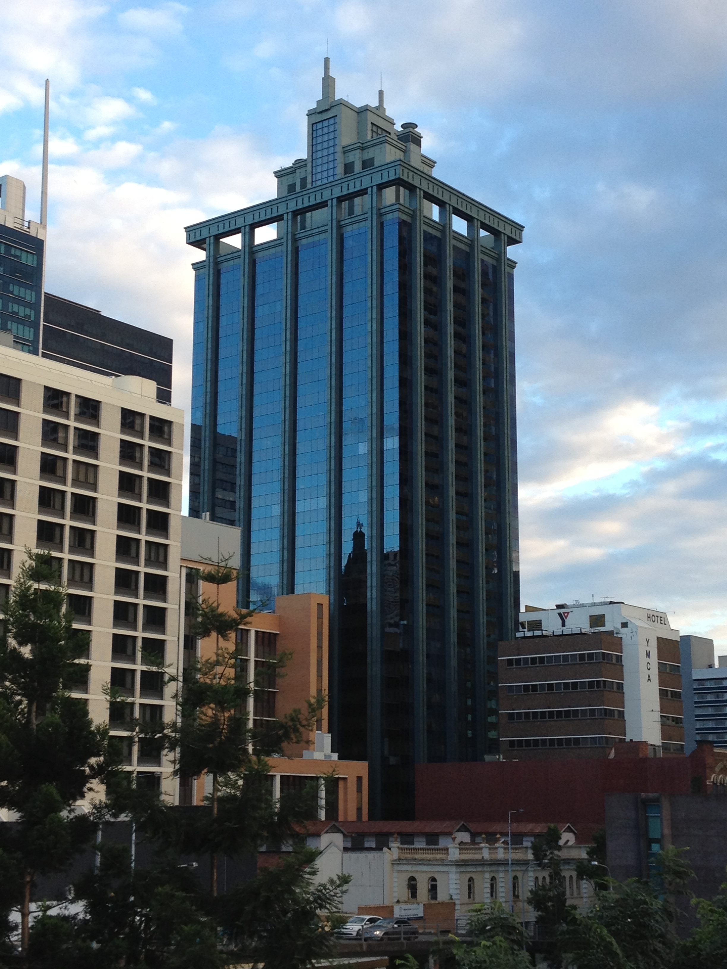 State Law Building, 50 Ann Street, Brisbane in May 2013